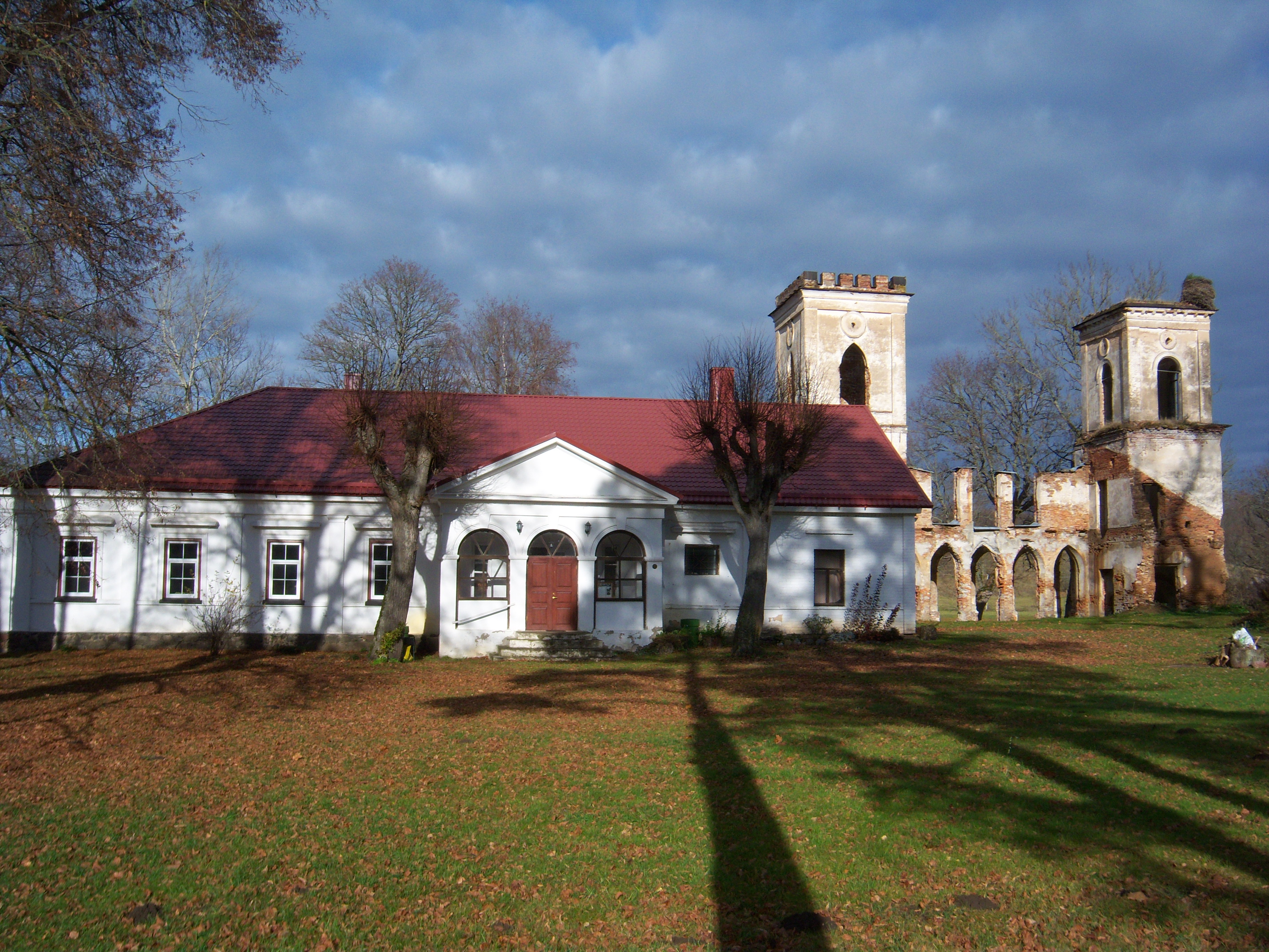 Palėvenė manor in Stirniškiai, Kupiškis District, Lithuania